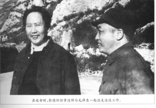 Mao and Pang Dehuai in Yan'an.